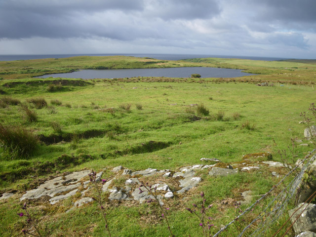 Coastal lochan near Easter Ellister, near to Ellister, Argyll And Bute, Great Britain. Viewed from the main road.